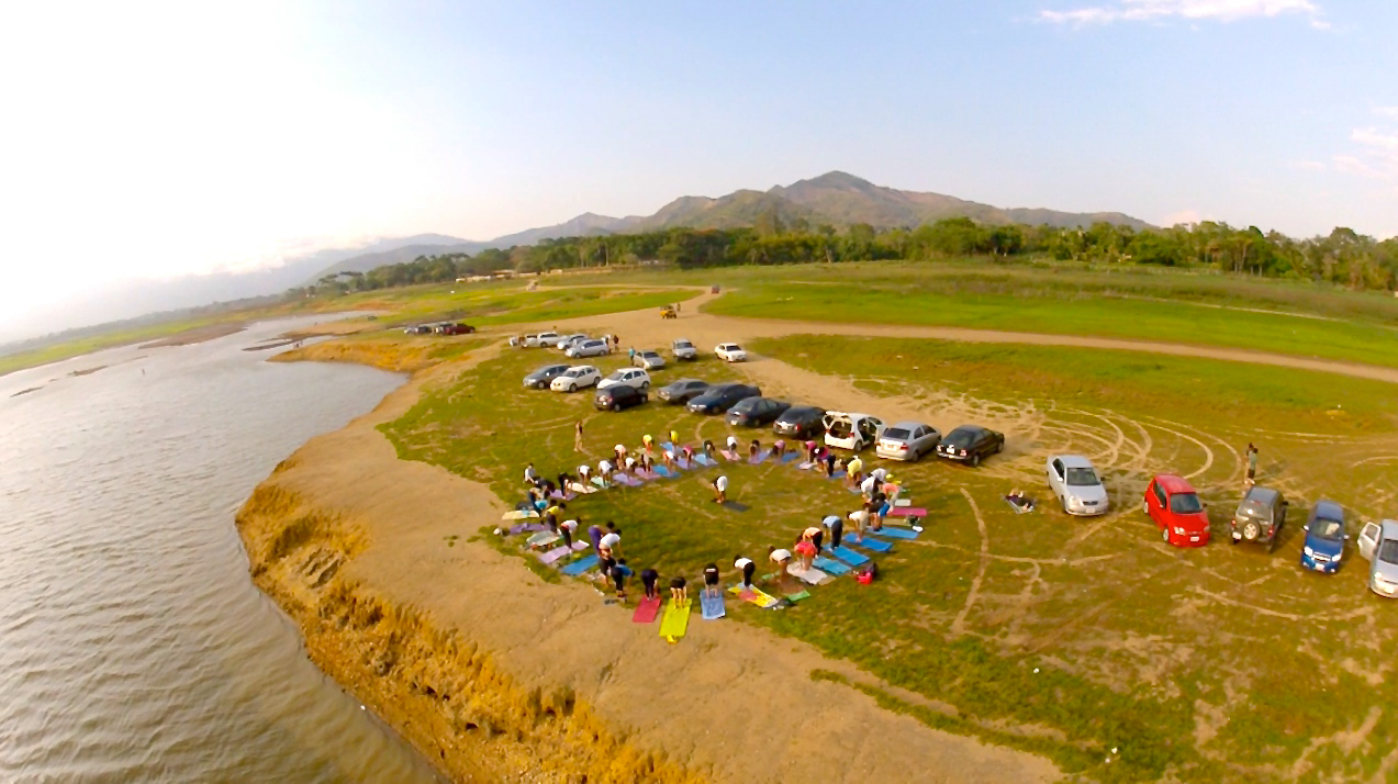 Dique de Guataparo, Valencia, Edo. Carabobo - Yoga